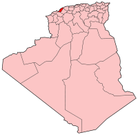 Map of Algeria showing Mostaganem province.